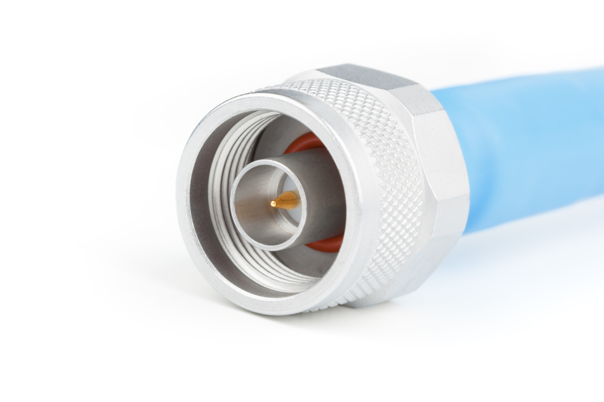 Precision male type N connector, 50 ohm 18 GHz with SUCOFLEX 104 PEA cable, manufactured by Huber+Suhner